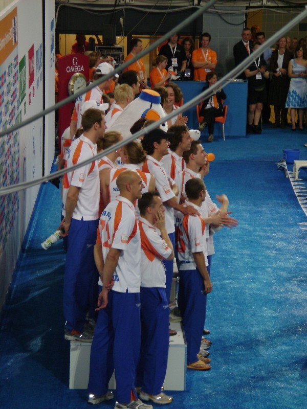 Dutch swimming team at the European LC Championships 2008 in Eindhoven